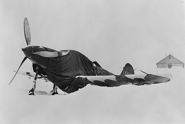 A blanketed Bell P-39N Airacobra (USAAF s/n 42-2961?) at Nome, Alaska (USA), in 1943-44. The red Soviet stars under the wings identify this as a lend-lease aircraft ferried to the USSR via Alaska. Note the belly tank.